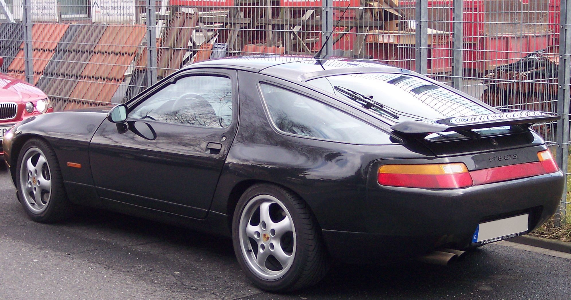 Rear view of a Porsche 928 GTS